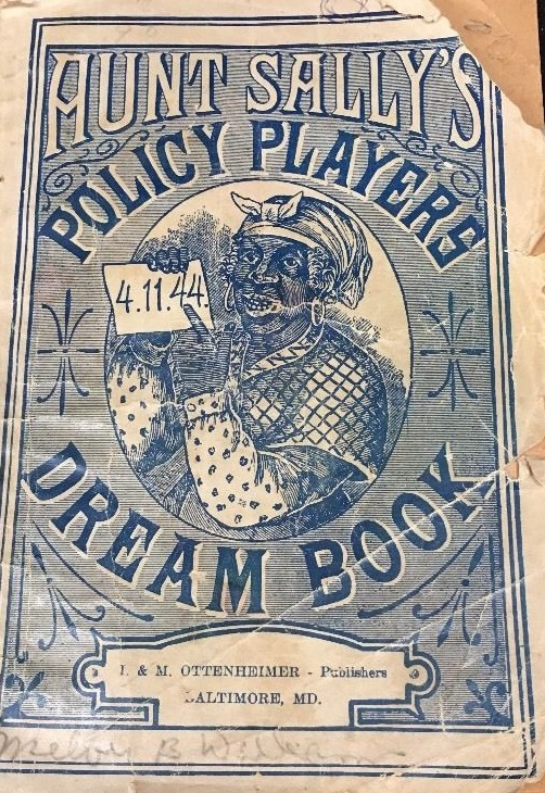 Front cover of 1889 book "Aunt Sally's Policy Players Dream Book" Woman on cover is holding up "4.11.44" sign, a well-known popular gambling play, said to be favored by African-Americans.